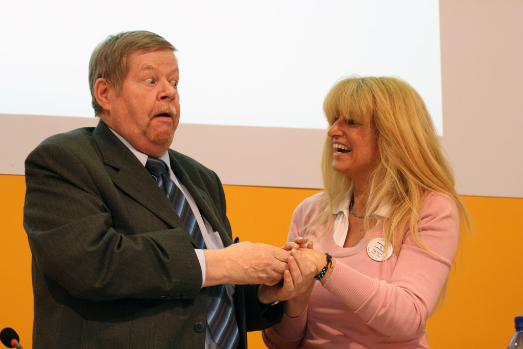 Finnish novelist Arto Paasilinna (and the photographer's mother) at the 2008 Turin International Book Fair (Salone del libro di Torino), Italy.